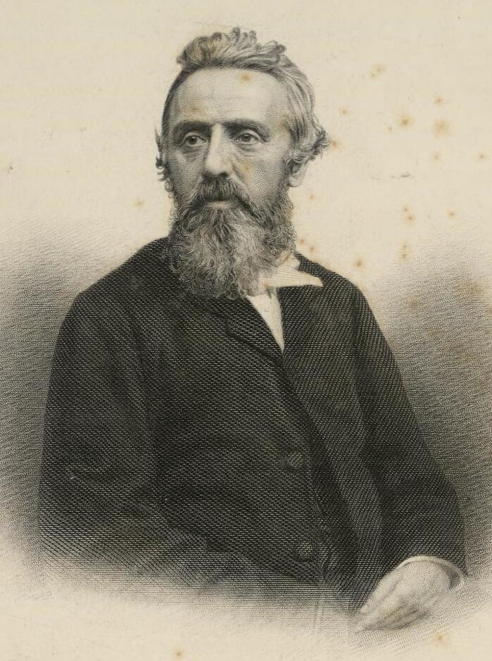 A portrait from the Welsh Portrait Collection at the National Library of Wales. Depicted person: Henry Quick – Cornish poet